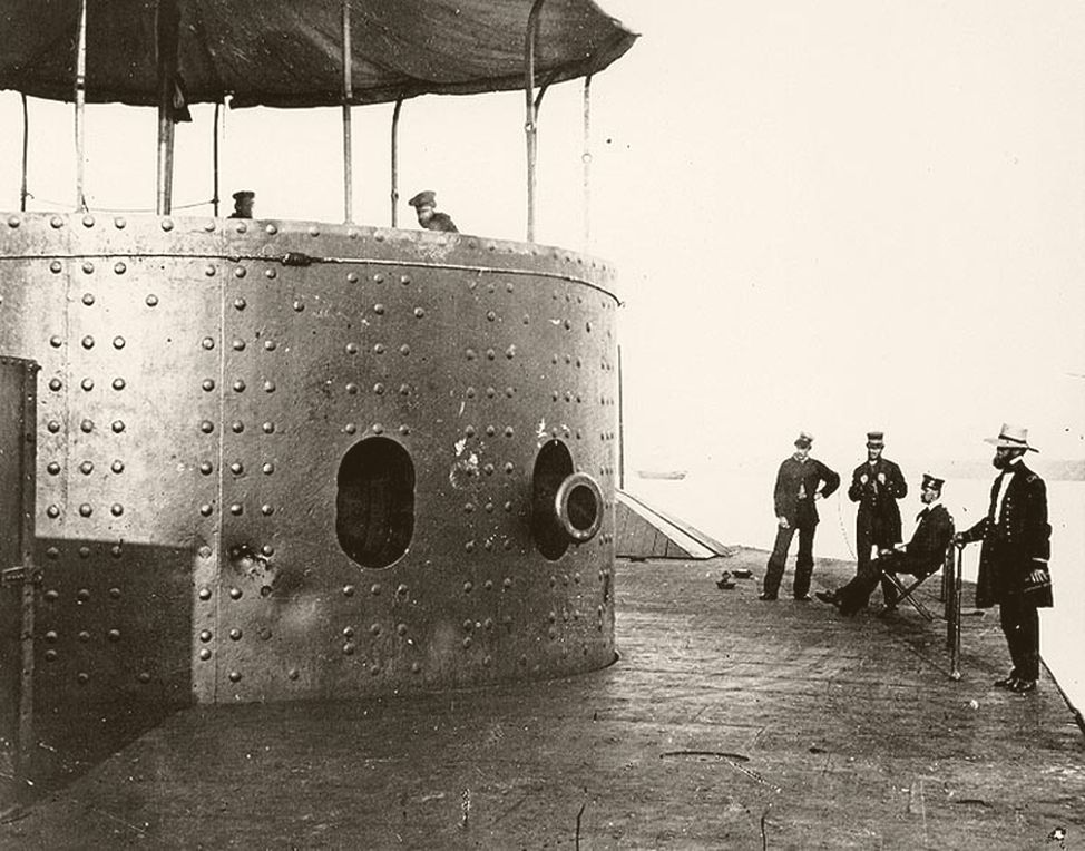 USS Monitor View on deck looking forward on the starboard side, while the ship was in the James River, Virginia, 9 July 1862. The turret, with the muzzle of one of Monitor's two XI-inch Dahlgren smoothbore guns showing, is at left. Note crewmembers atop the turret, and dents in turret armor from hits by Confederate heavy guns. Dents from the battle with the CSS Virginia are visible. Officers at right are (left to right): Third Assistant Engineer Robinson W. Hands, Acting Master Louis N. Stodder, Second Assistant Engineer Albert B. Campbell (seated) and Acting Volunteer Lieutenant William Flye (with binoculars).